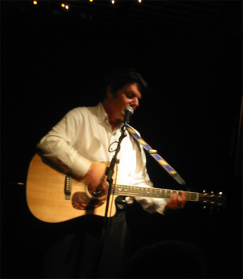 Oct. 10 2007, in café Cambrinus in Horst, Limburg, pop legend Phil Sloan